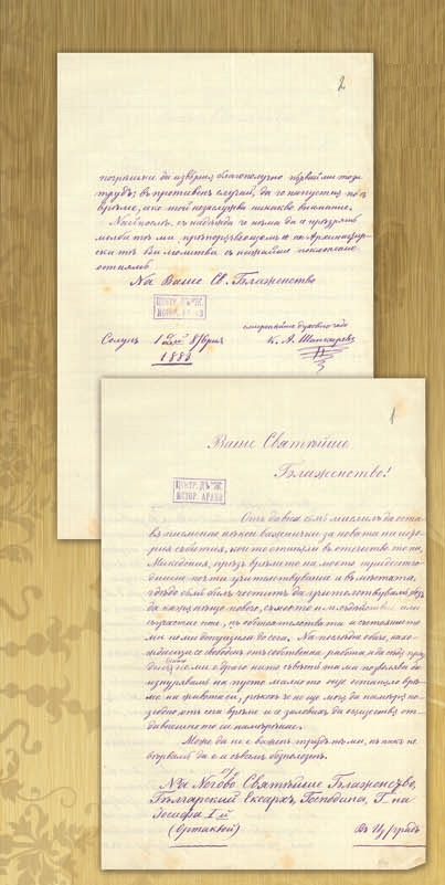 Kuzman Shapkarev to Joseph I Letter 1883